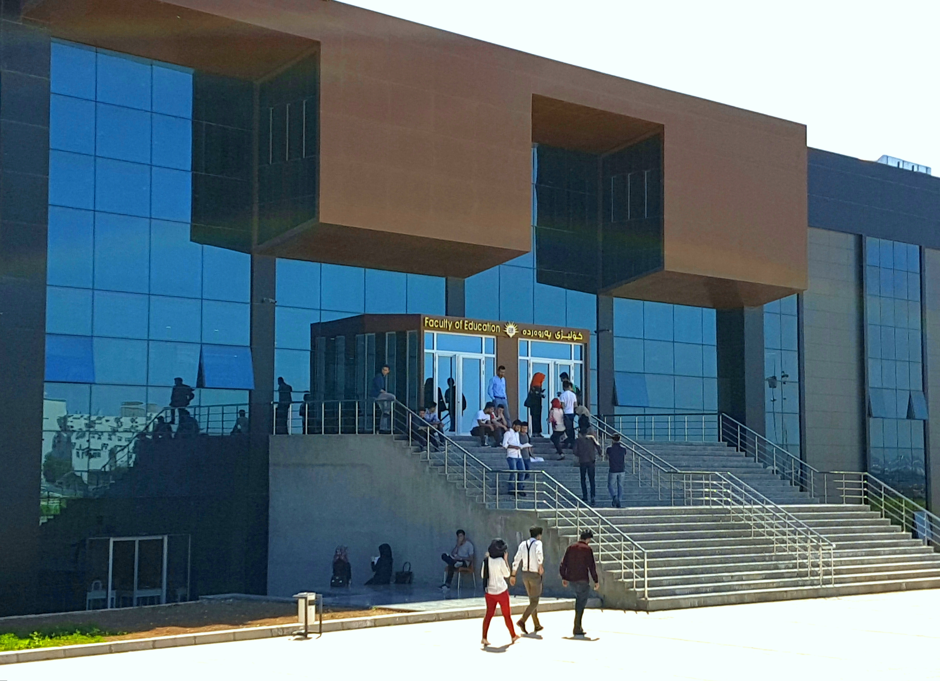 Education Faculty in Ishik University - Erbil